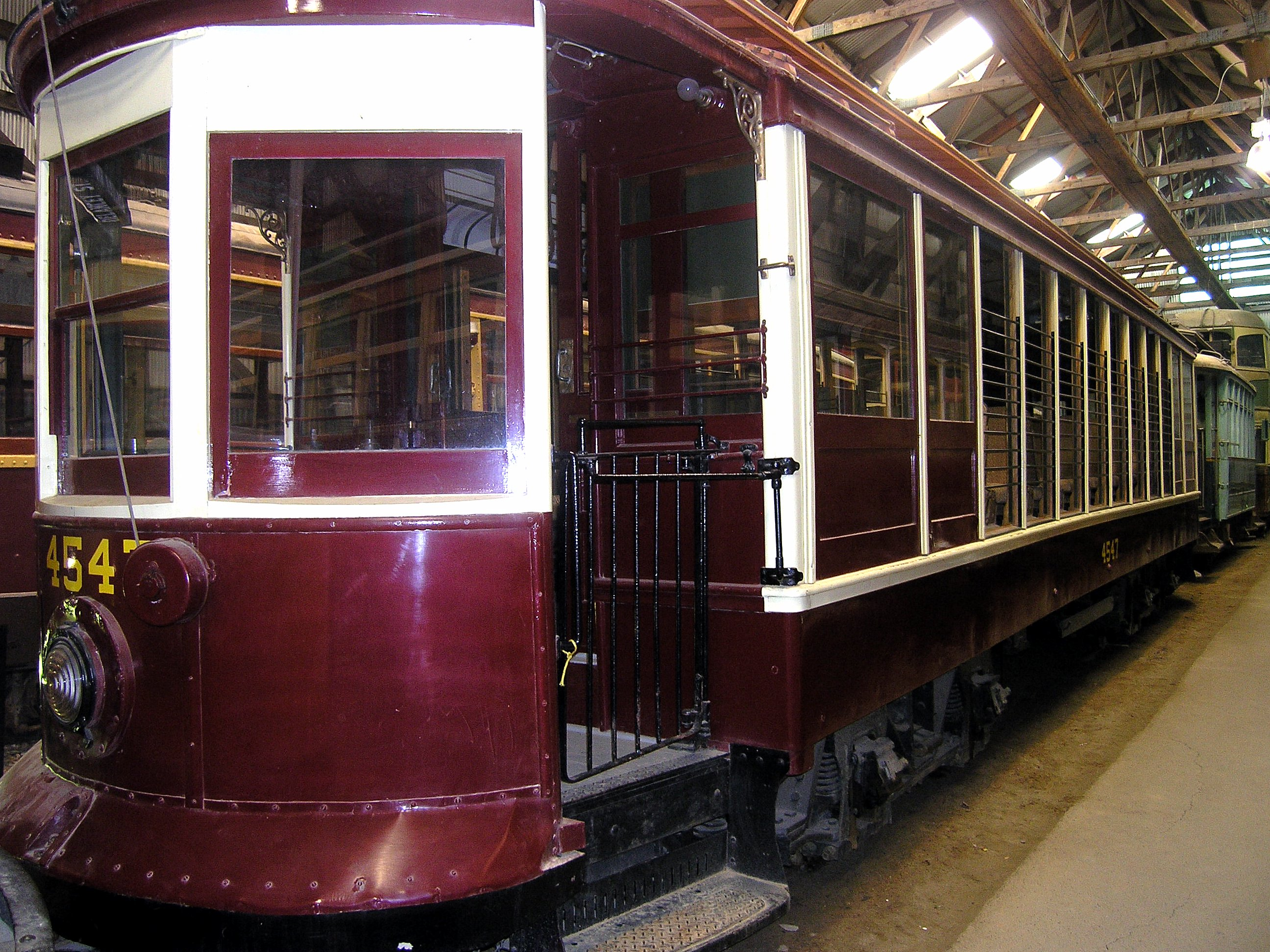 Trolley 4547, a passenger car and later salt car operated in Brooklyn, at Seashore Trolley Museum in August 2006